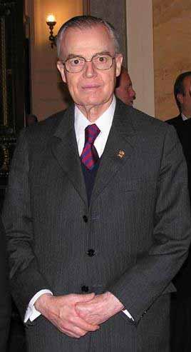 Prince Bertrand of Orléans-Braganza in Poland 2007